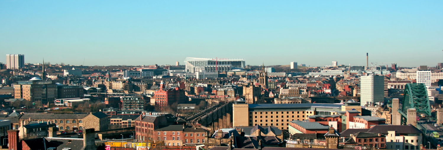 St James' Park football stadium as seen from south of the River Tyne. The Tyne Bridge can be seen to the right